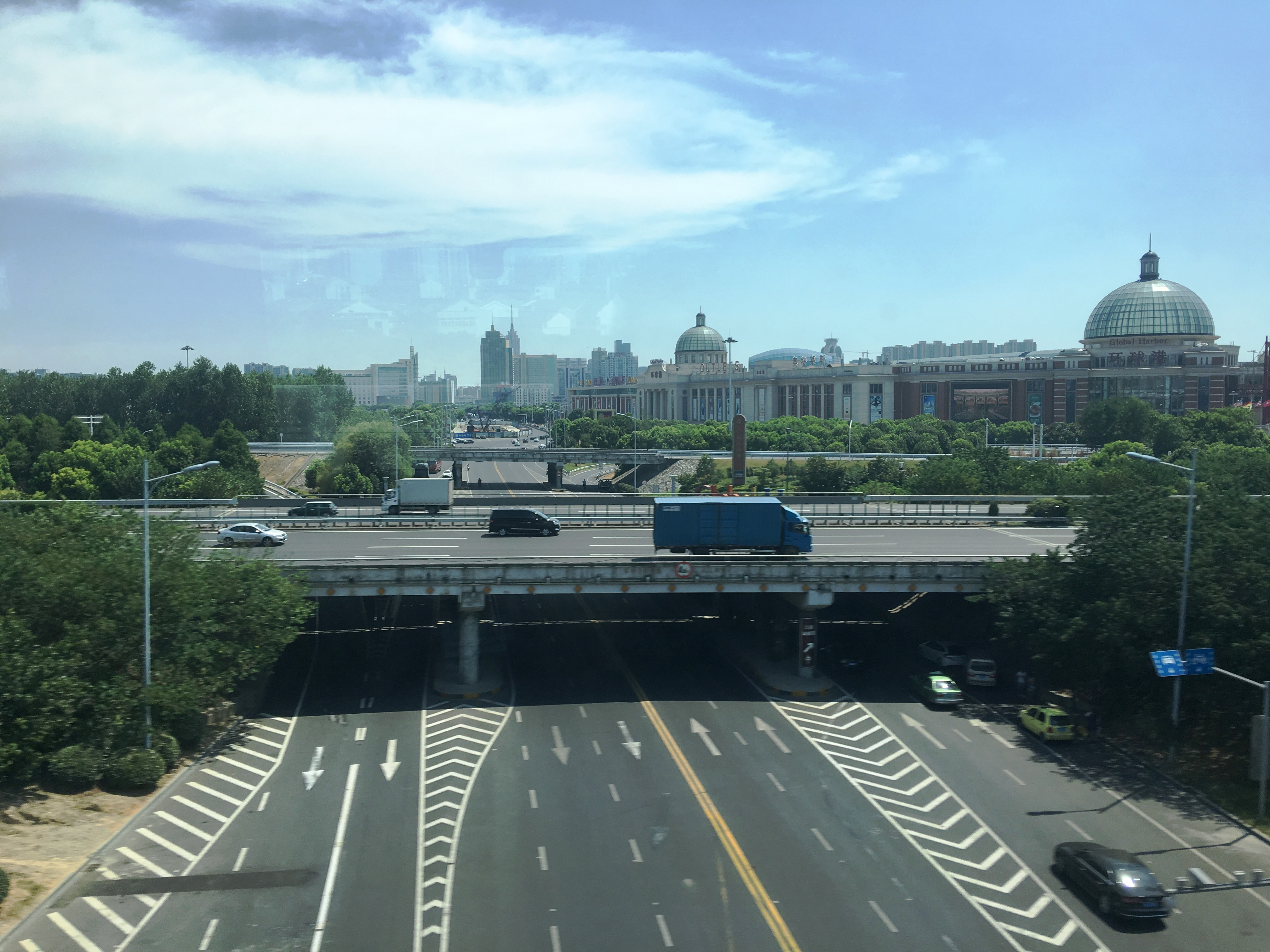 Image from North towards South, from Central part of Xinbei District in Northern Changzhou city, China.